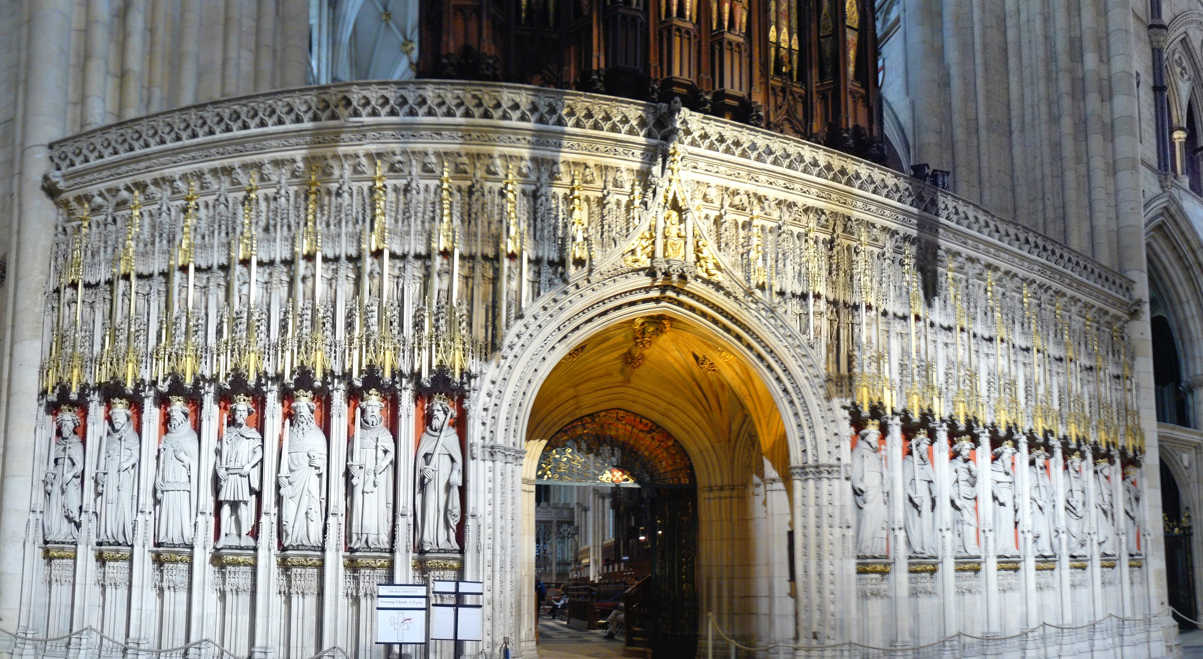 York Minster, the entrance to the choir.